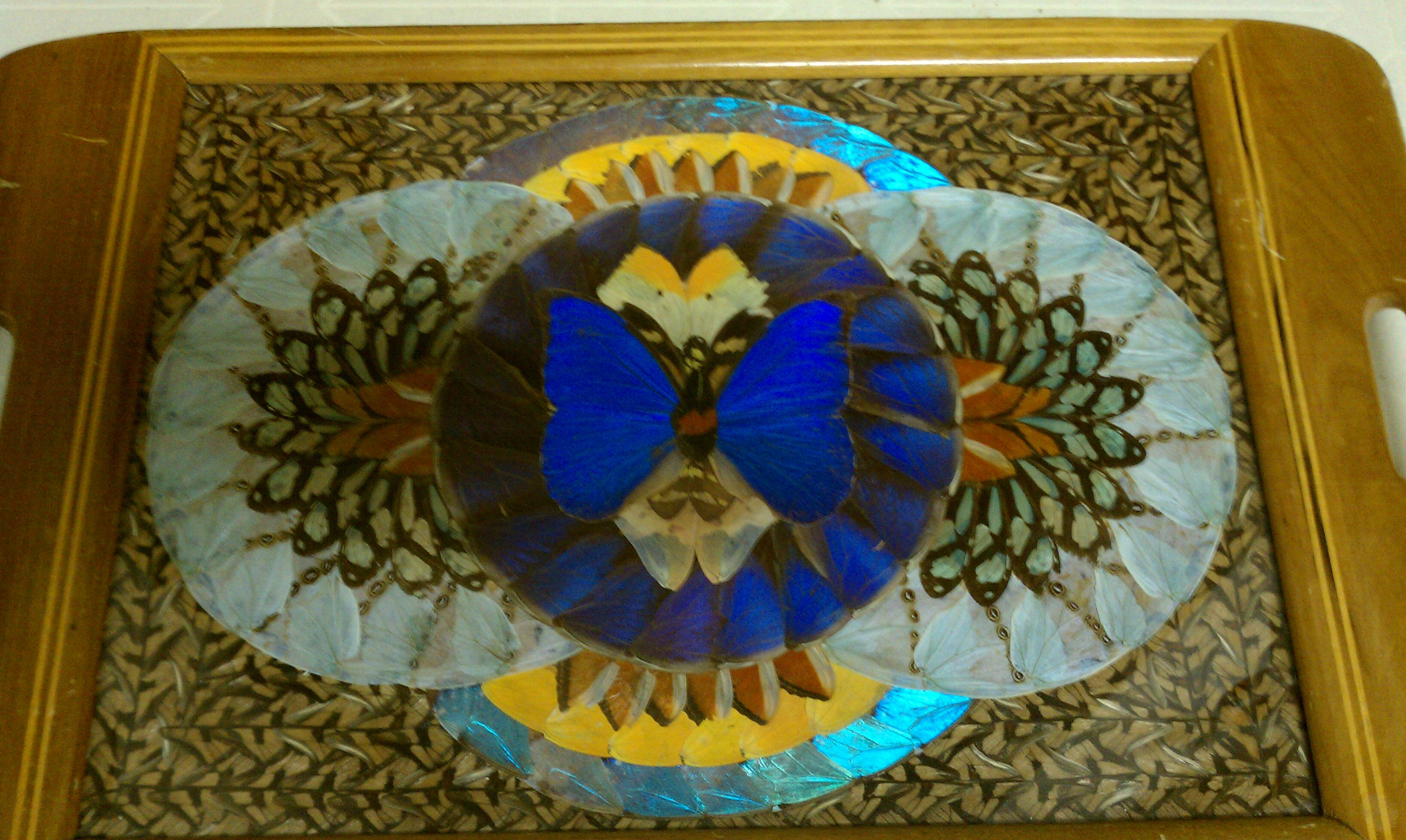 Butterfly wing "marquetry" bought at an Expo Idaho flea market for $10; its provenance is otherwise unknown.